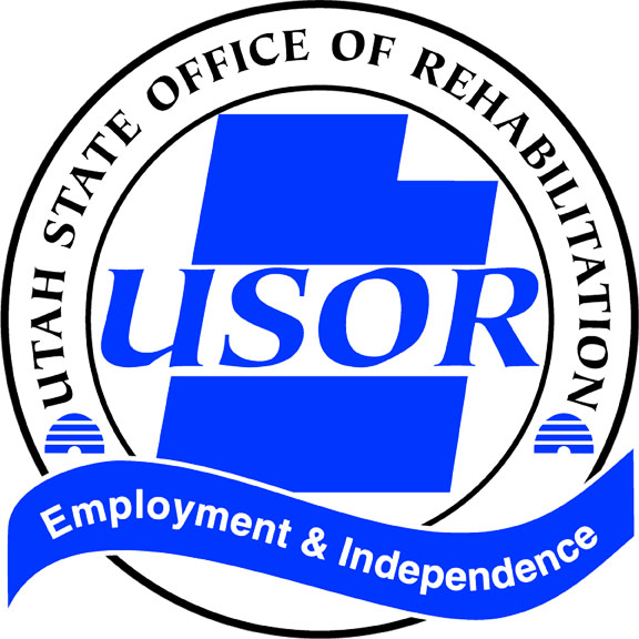 Utah State Office of Rehabilitation Logo